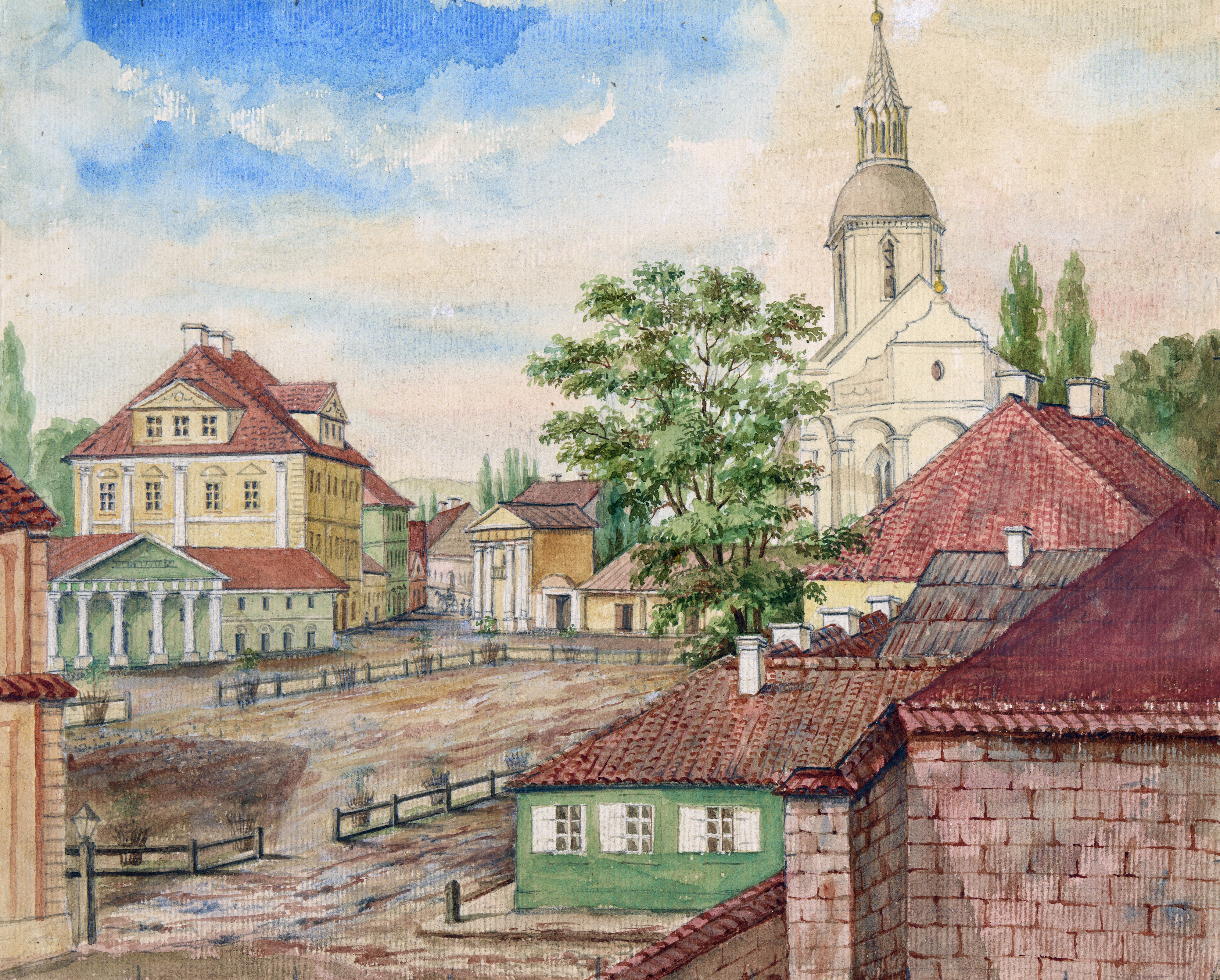 Catholic church of St. Mary in Horadnia, N. Orda